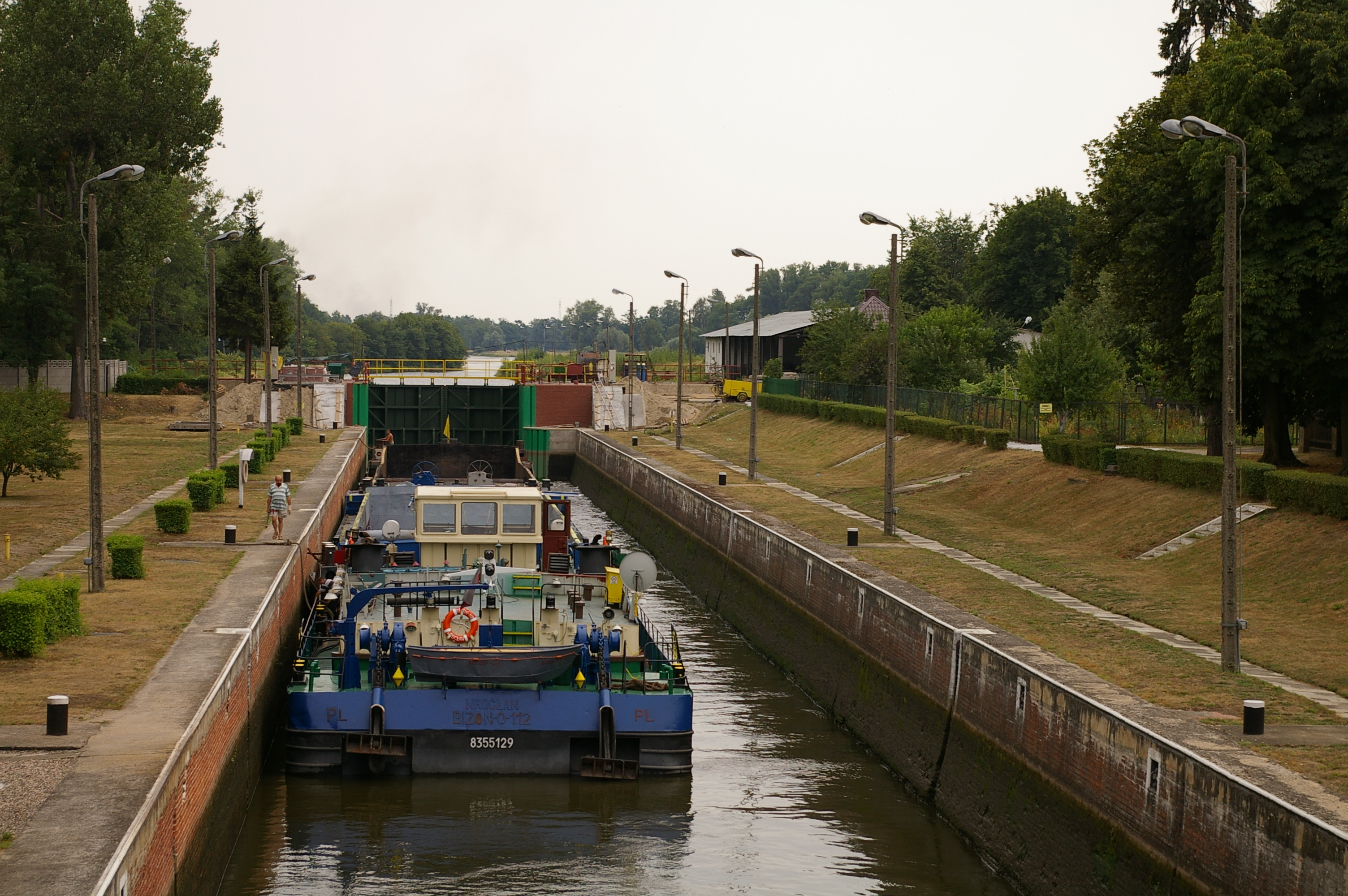 Barge in a Bartoszowice canal lock, Wrocław